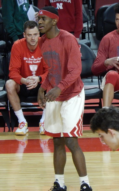 Watson Jr. in 2017